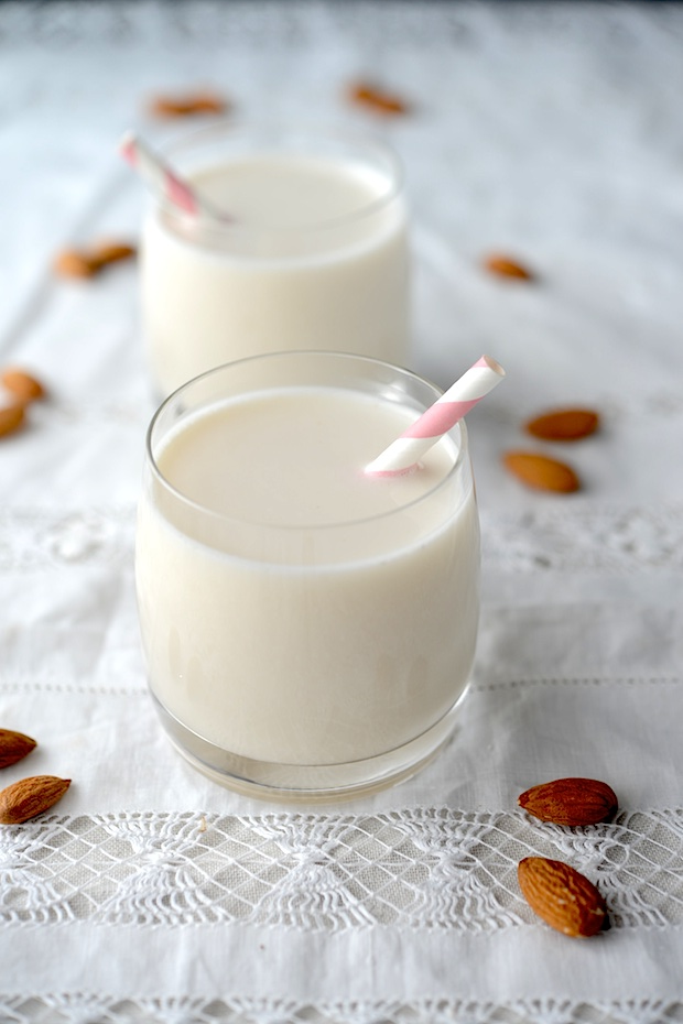 Almond milk: gluten-, dairy- and lactose-free